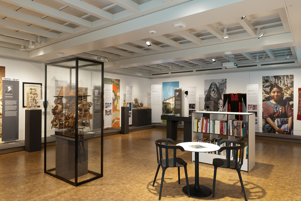 View into one of the exhibition rooms of the Ethnographic Museum of the University of Zurich